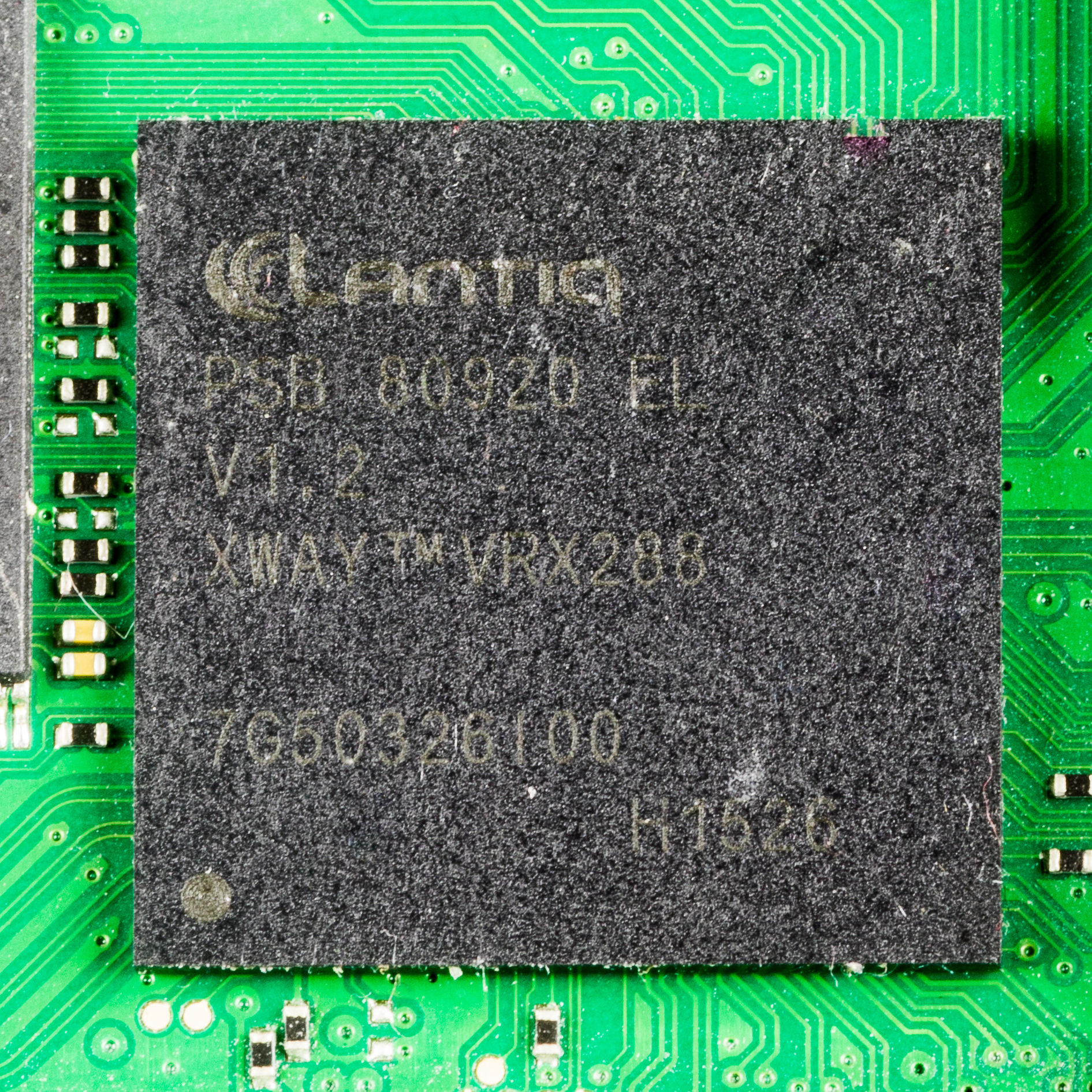 FRITZ!Box 7490 - board - Lantiq PSB 80920 XWAY VRX288 - SoC VDSL2, ADSL1/2/2+ Home Gateway. Package: PG-LFBGA-369